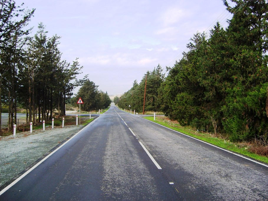 The B6 near Kouklia, Cyprus. Clicked by me on my visit to the place